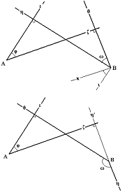 Angles with vertical sides